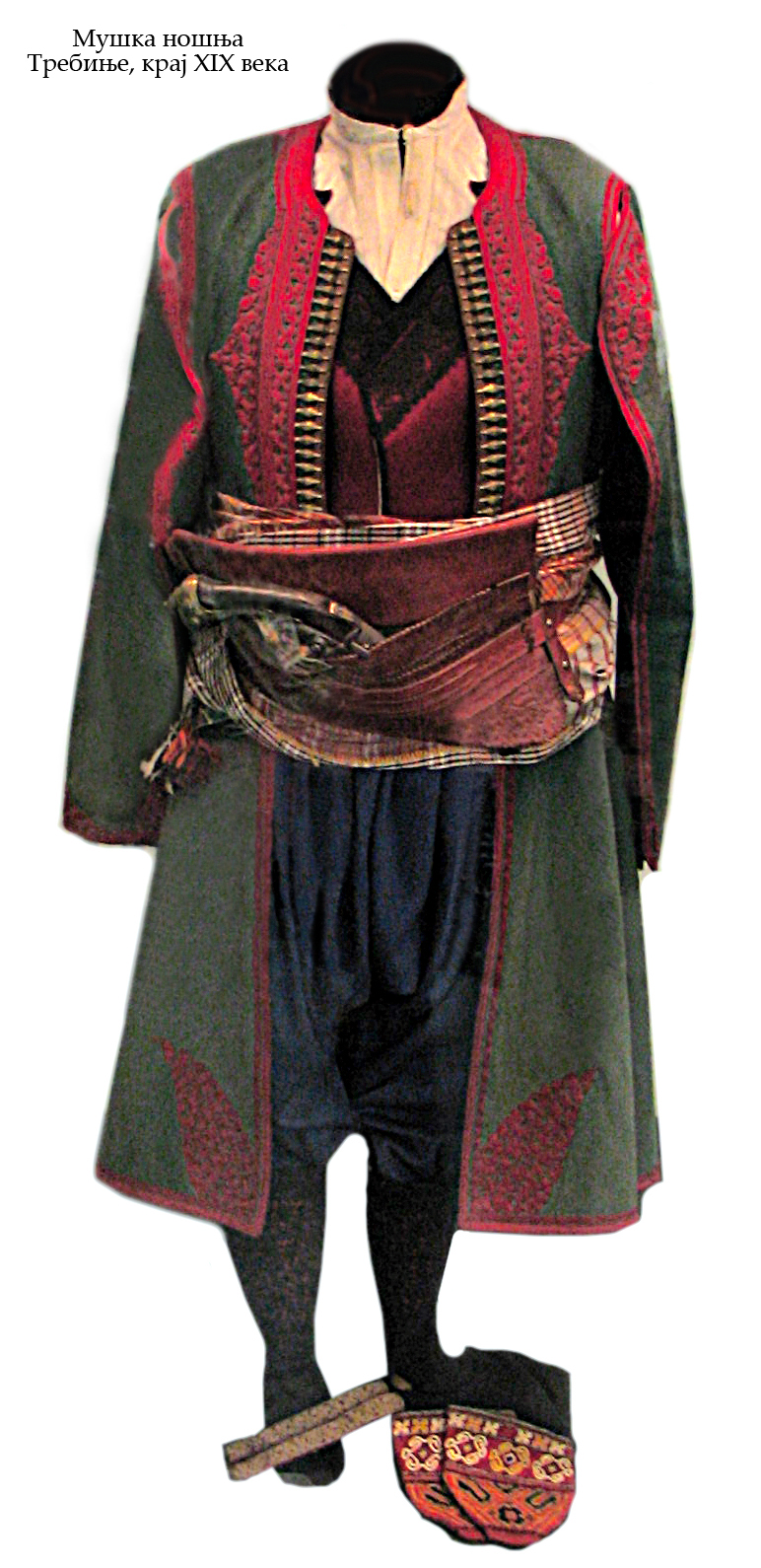 Serbian national costume from Trebinje, end of XIX c